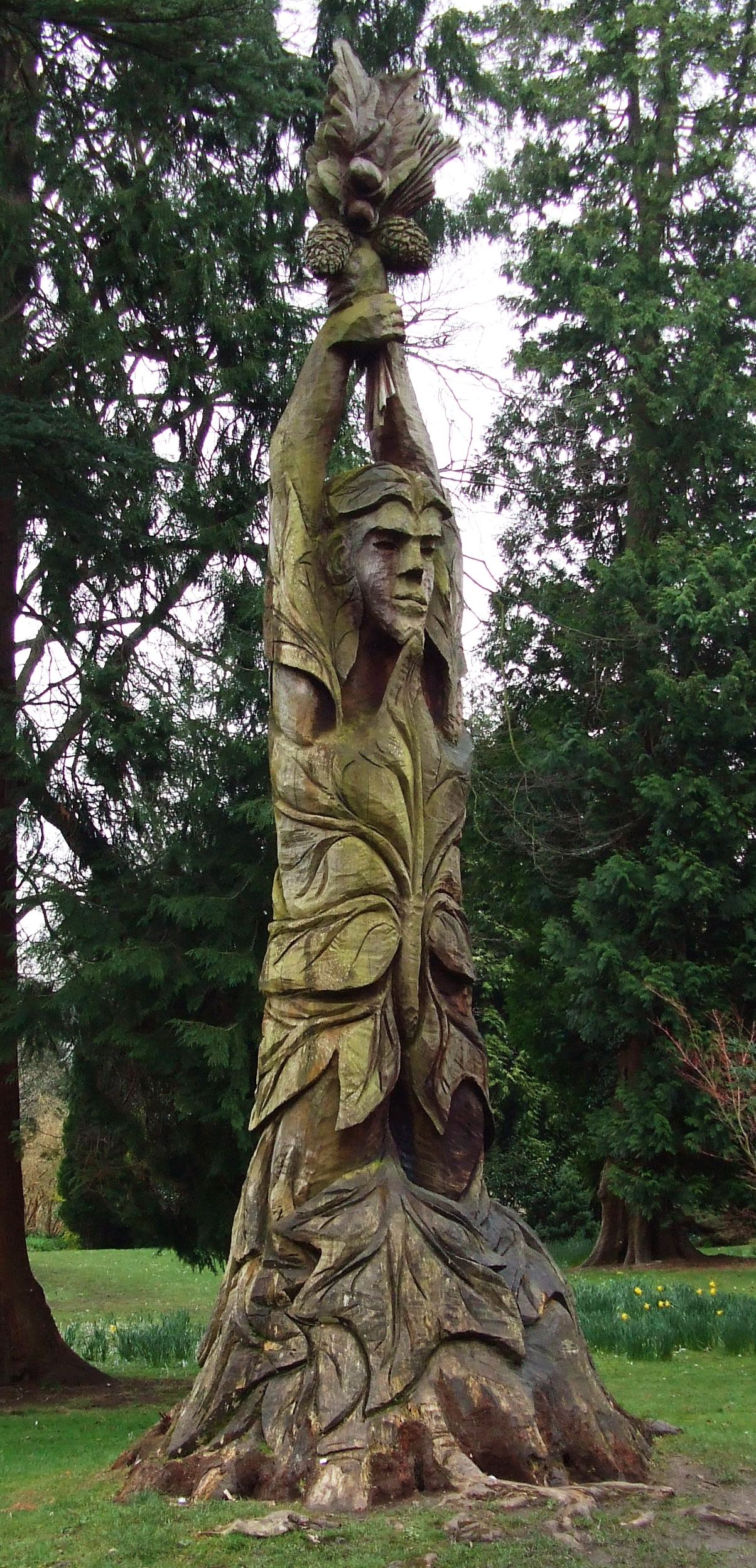 Tree carving, Botanical gardens, Royal Victoria Park Bath